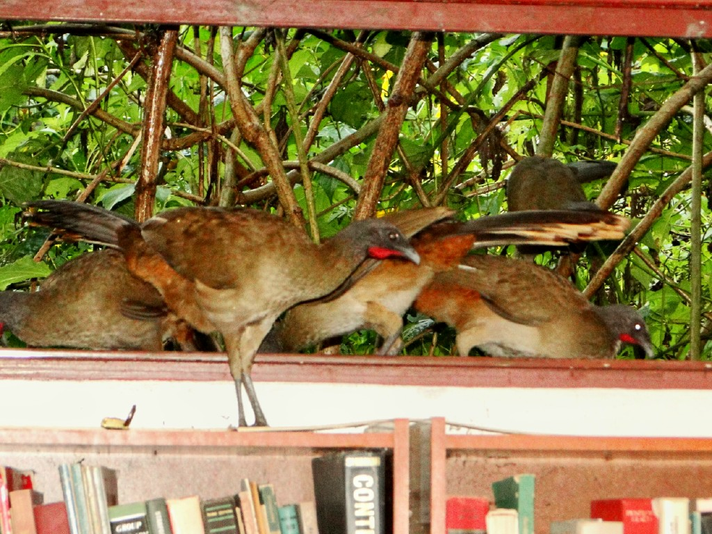 Rufous-vented chachalaca entering house room through the window, Maracay, Venezuela.